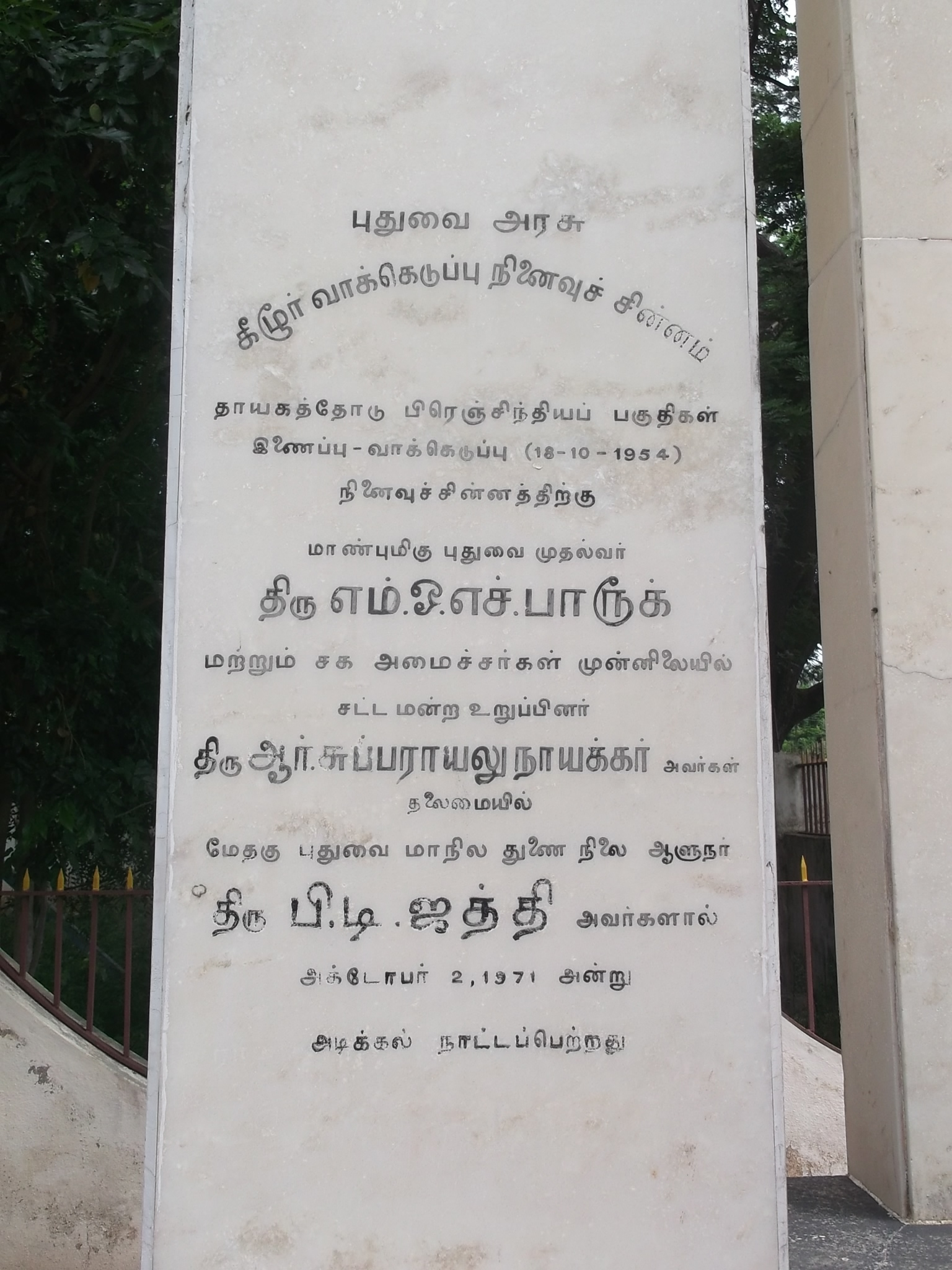 Puducherry Keezhur Monument Erected news